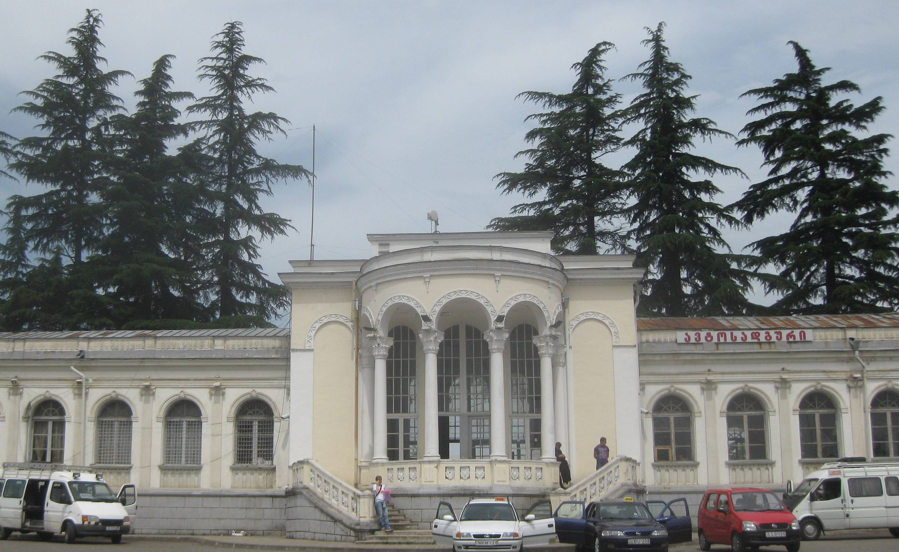 Train Station Zugdidi Georgia Front